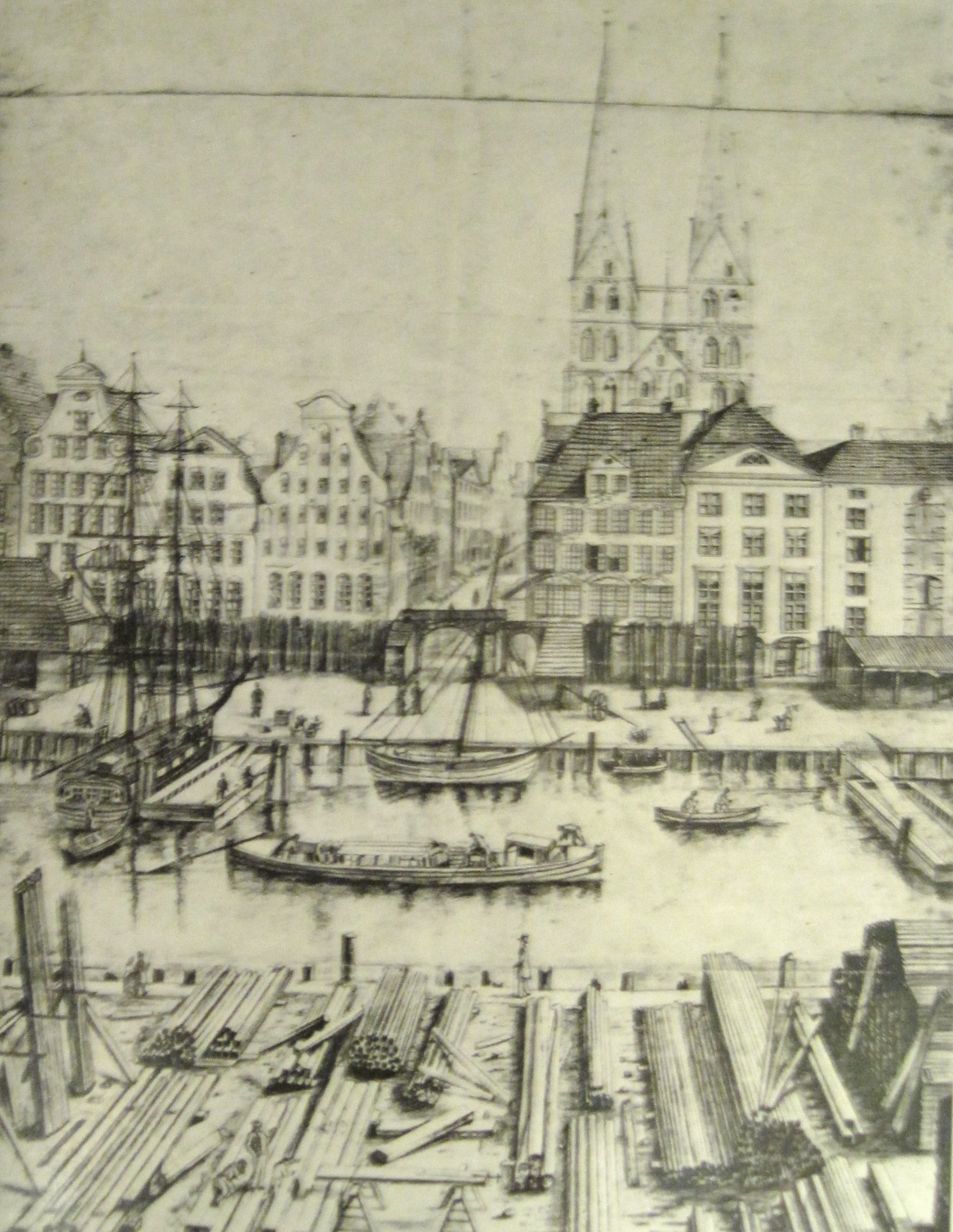 Lübeck's harbour at Alfstraße before 1848.